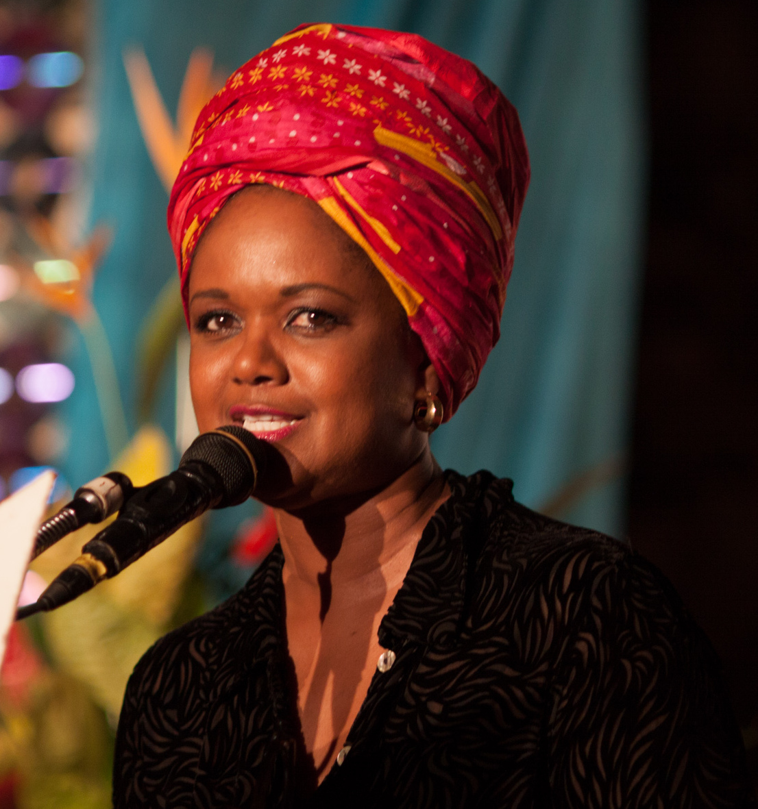 Tonya Williams at the 2013 Zanzibar International Film Festival.